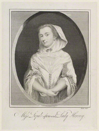 Portrait of Lady Mary Hervey (1700–1768), English courtier.